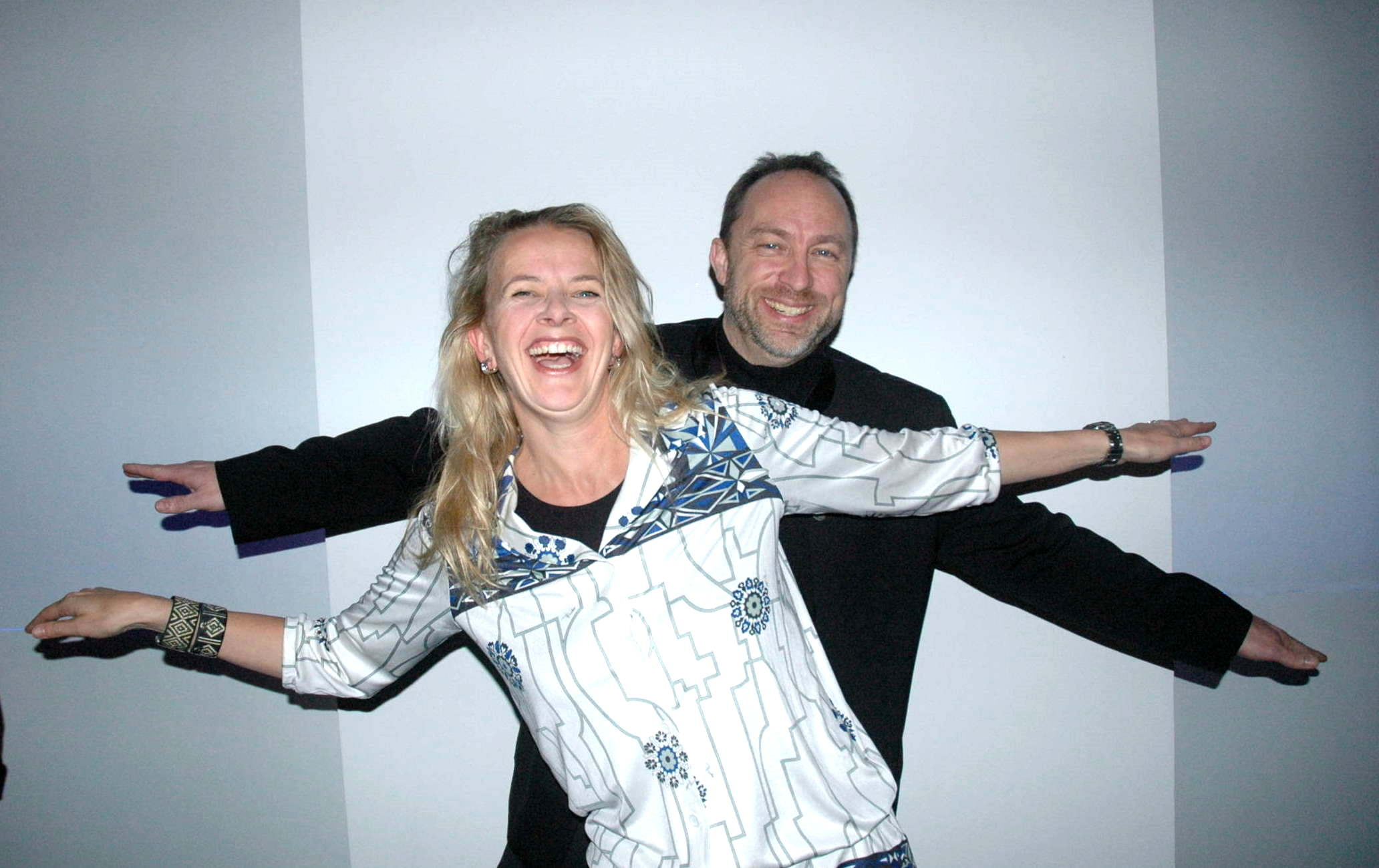 Jimmy Wales and Princess Mabel of Orange-Nassau at Wikipedia 10th anniversary party London